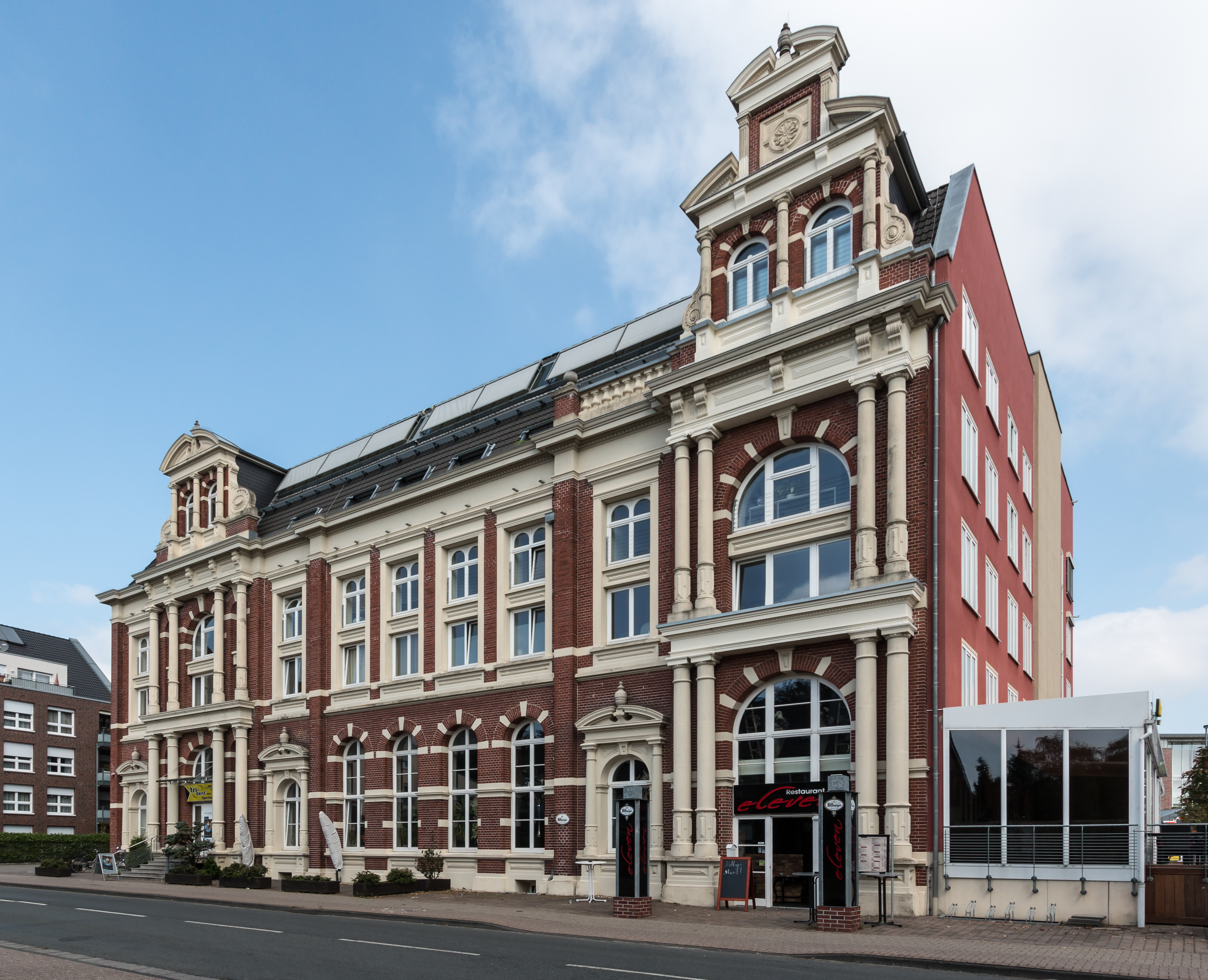 Storehouse of the company Bendix, Dülmen, North Rhine-Westphalia, Germany This image shows a heritage building in Germany, located in the North Rhine-Westphalian city Dülmen (no. 68).